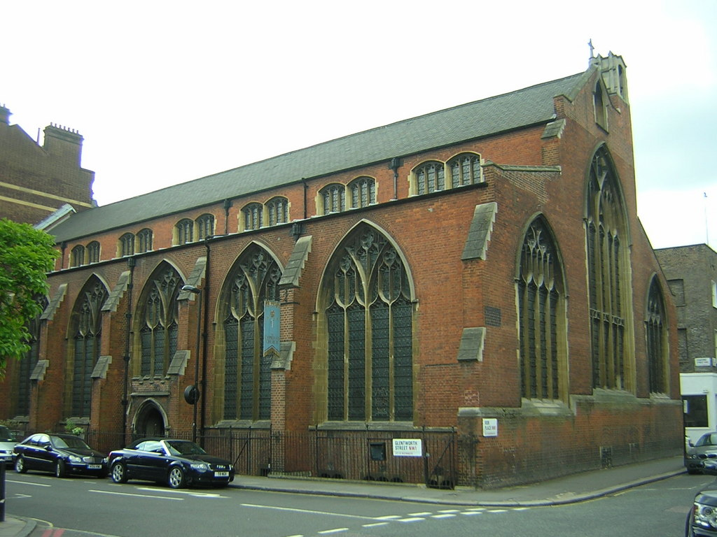 St Cyprian's church, Clarence Gate, Data from Geograph: Description: An unusual dedication for an Anglican church. Designed by Ninian Comper. ICBM: 51.524364265265, -0.15995366305457 Location: (about 0 km from) near to Marylebone, Westminster, Great Britain.